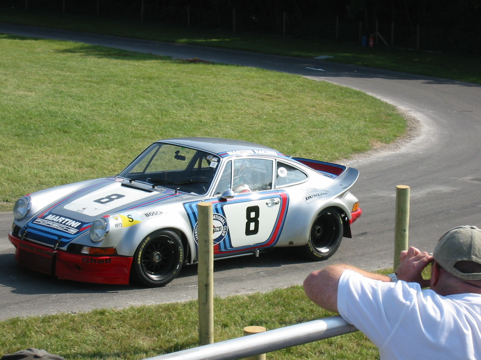 Porsche 911 Carrera RSR No. 8 Martini Targa Florio winner 1973Porsche 911 RSR